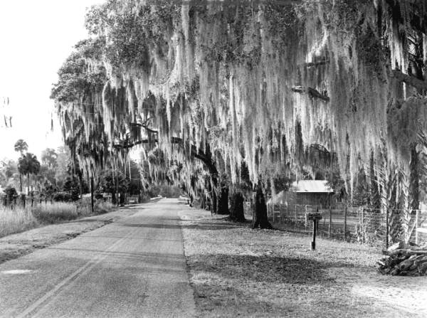 Looking down a country road, with bridge over Cross Creek in the distance - Cross Creek, Florida